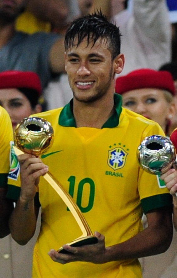 Neymar holding the 2013 FIFA Confederations Cup Golden Ball This file has been extracted from another file: ConfedCup2013Champions6.jpg